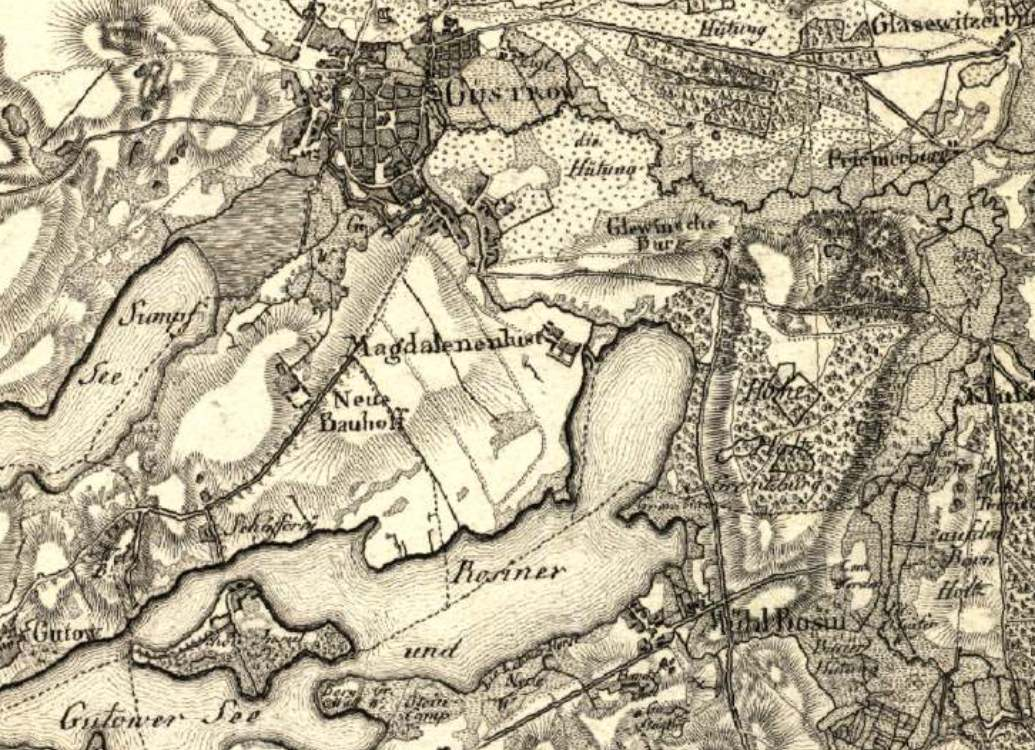 Schmettausche Karte from Güstrow, 1781.